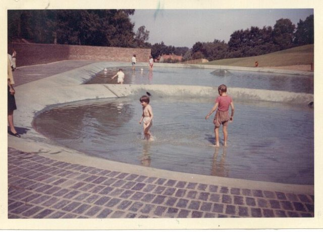 Paddling pools at Harlow Town Park. This is the 2 pools that were in the park in the '60s.